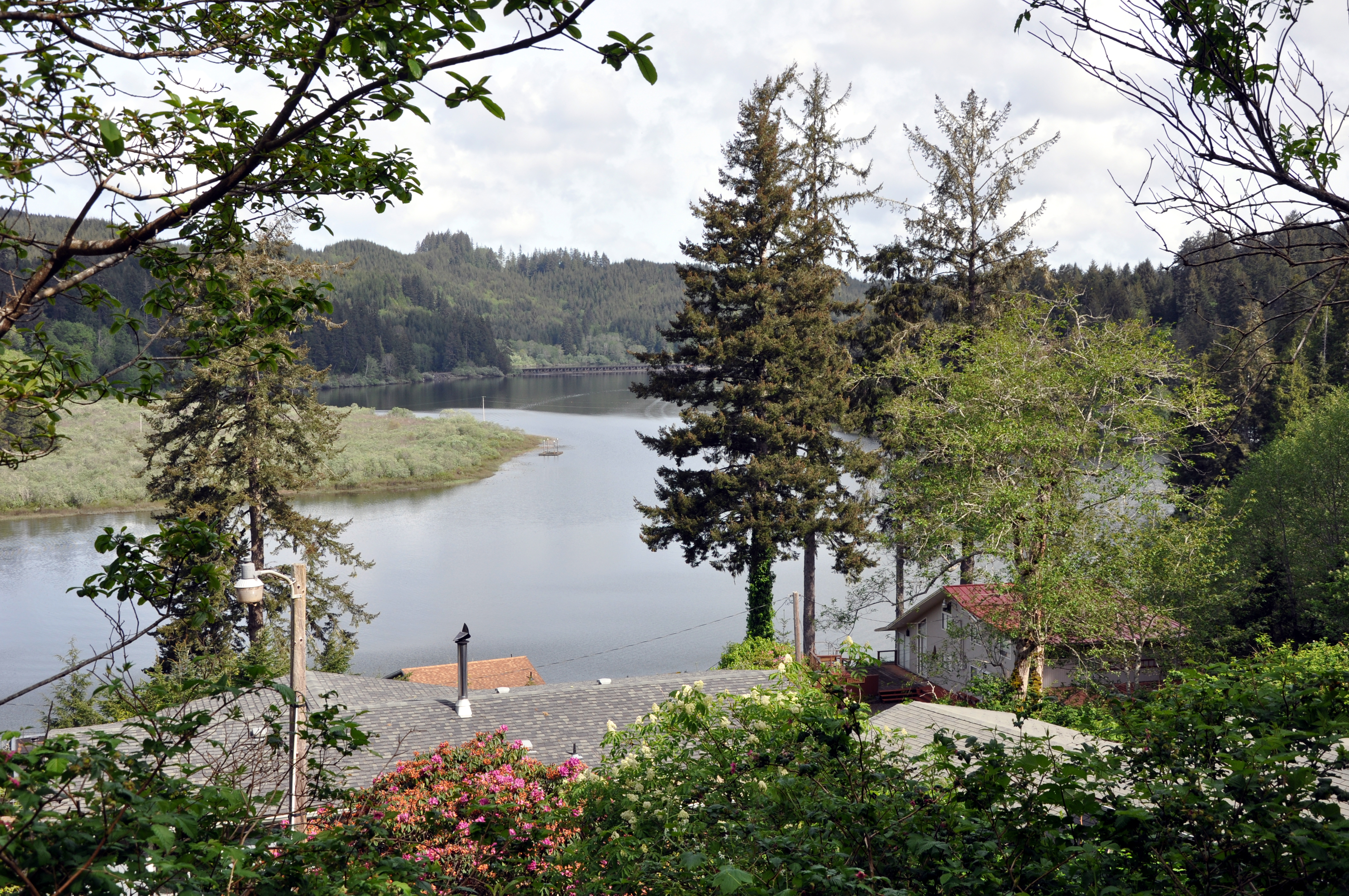 North Tenmile Lake in the U.S. state of Oregon. View is from North Lake Road east of the small city of Lakeside.